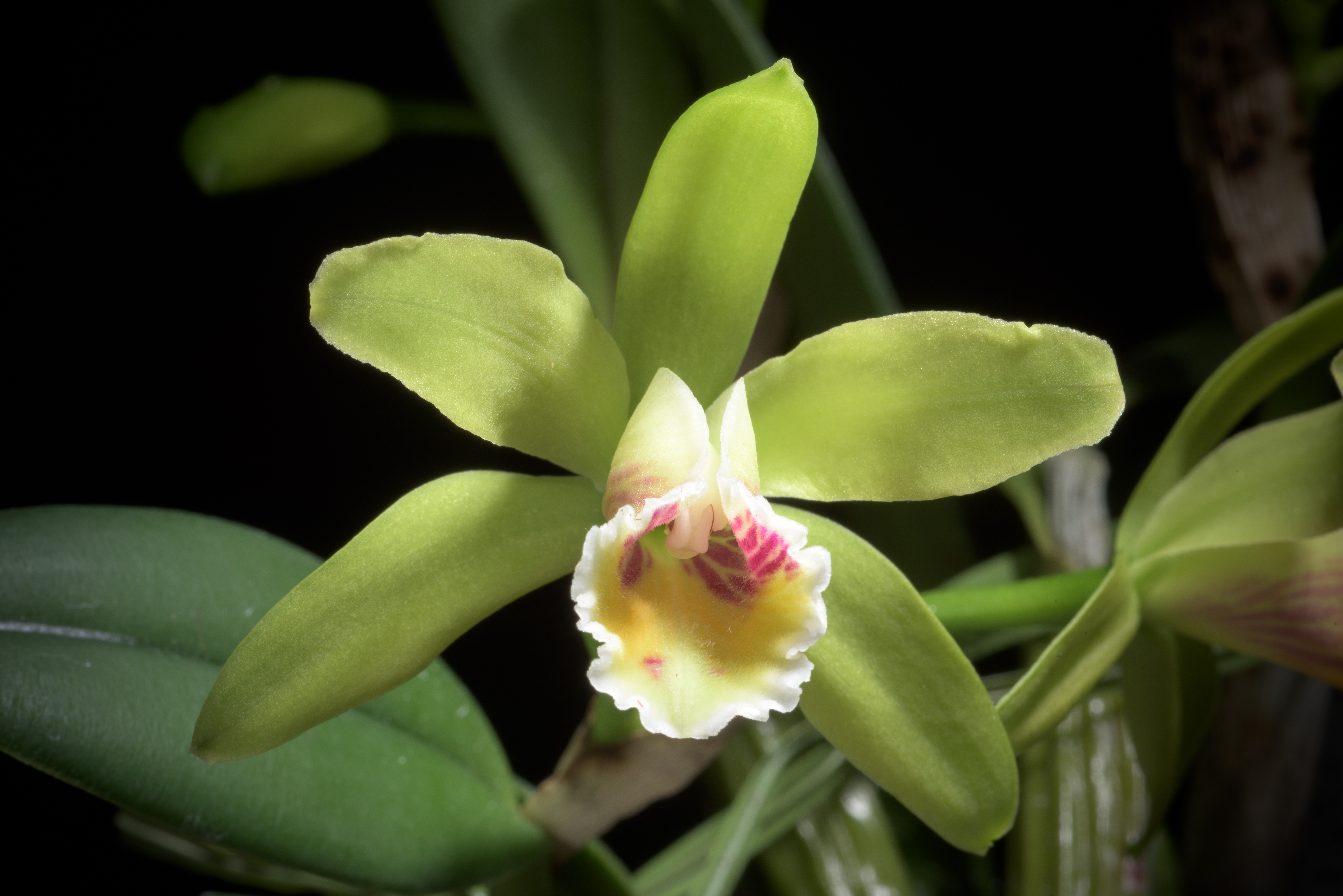 SUBGENUS Stellata Withner 1988 Distribution: N. Brazil, Ecuador to Bolivia 83 BOL ECU PER 84 BZN Found in Southern America Brazil Brazil North, Western South America Bolivia, Ecuador, Peru